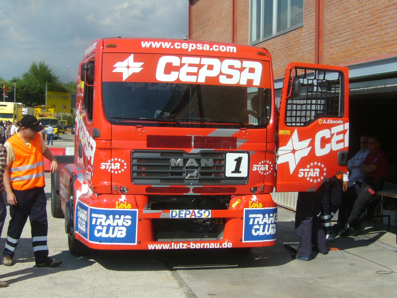 MAN truck from CEPSA-MAN team in the 2007 Grand Prix of Spain of the European Truck Championship celebrated in Jarama track race of Madrid, driven by Antonio Albacete